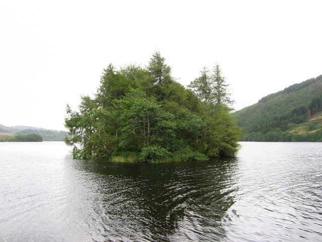 Caisteal na Nighinn Ruaidh. Island in Loch Avich, hidden in the trees are the ruins of a castle, a common use for loch islands.